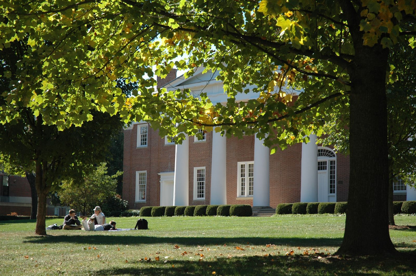 Students enjoying a beautiful fall day in front of Old Centre at Centre College in Danville, KY during Homecoming 2005